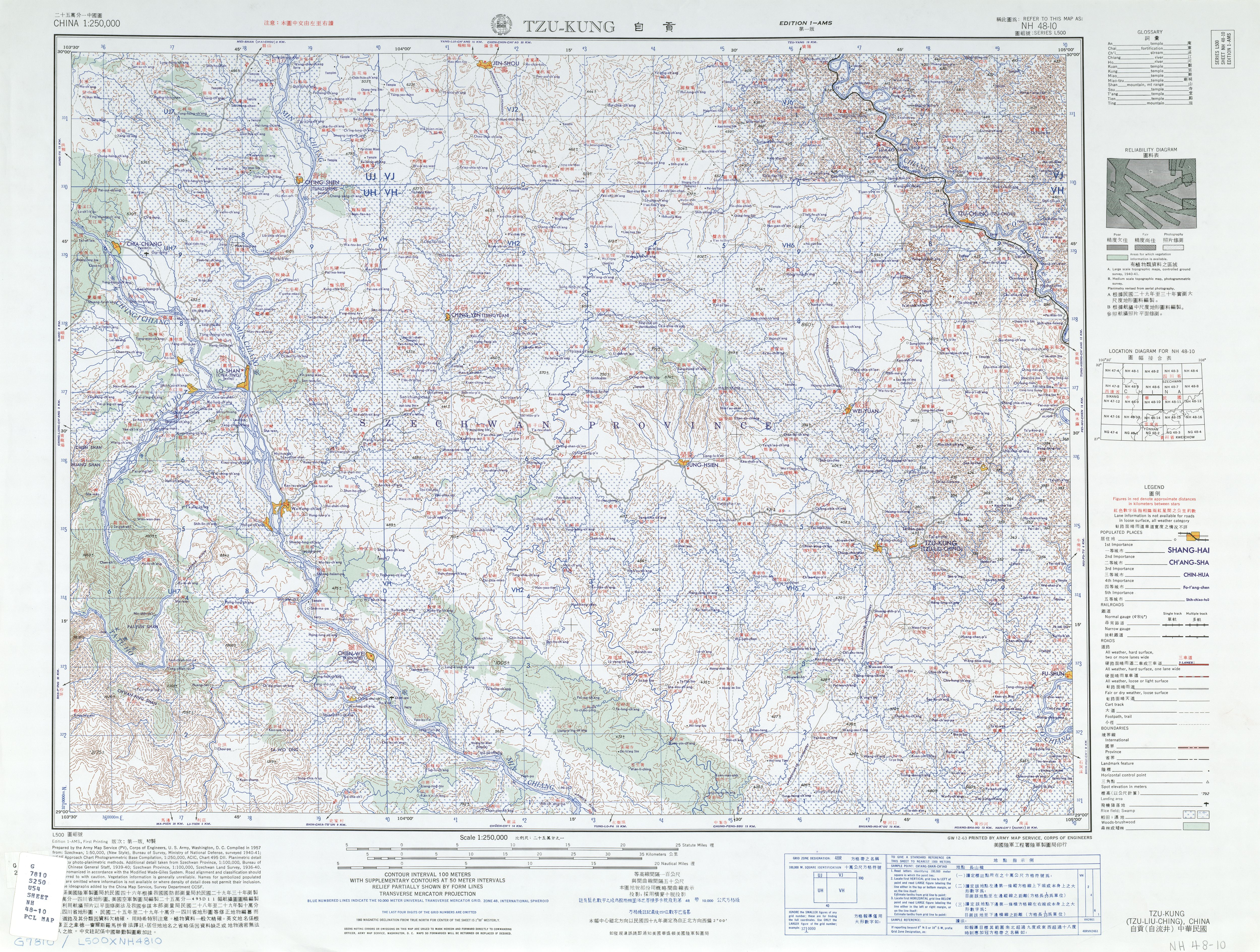 China AMS Topographic Maps